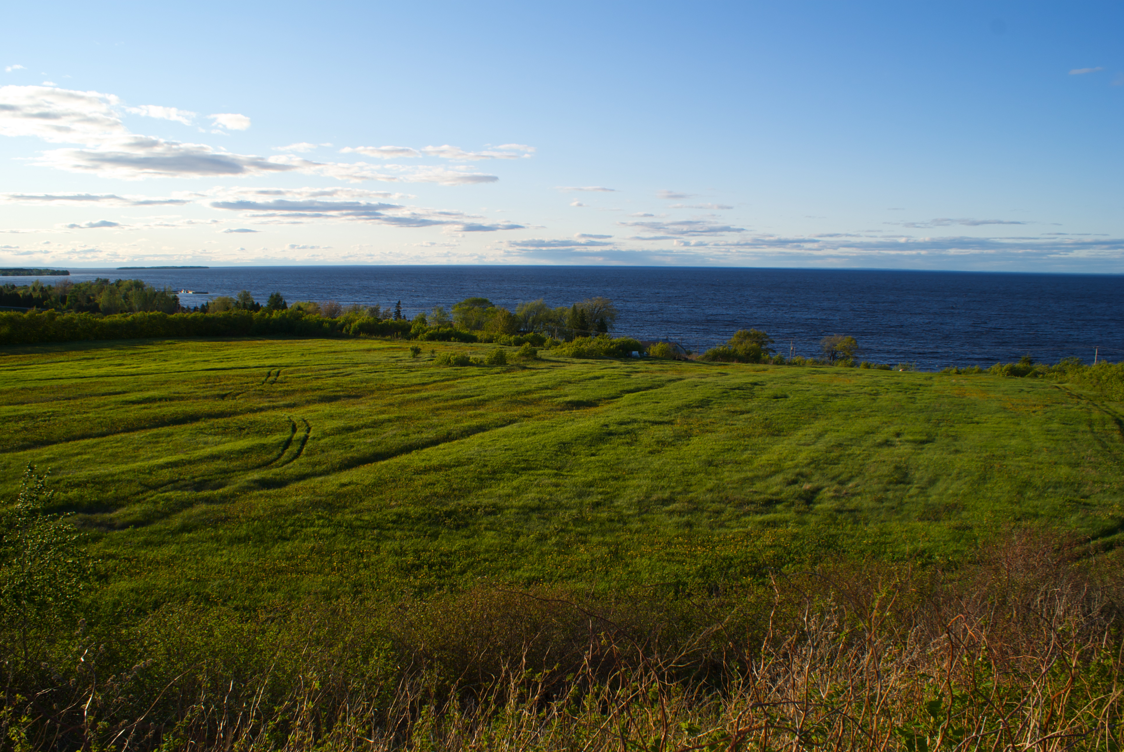 View on the lac St. Jean